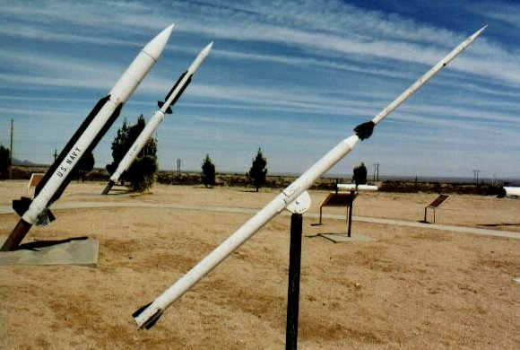 A Loki-Dart on display at the White Sands Missile Range rocket garden, photographed by User Willy Logan, March, 2002.